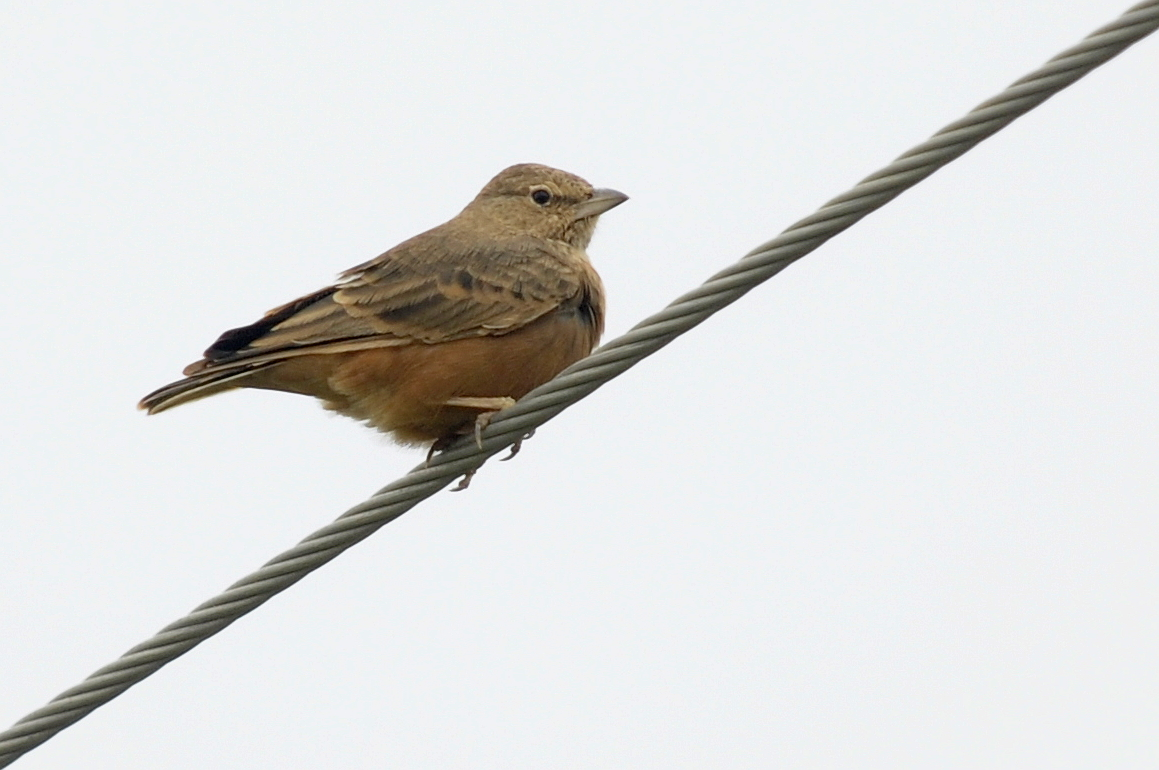 Rufous-tailed Lark near Jodhpur, Rajasthan, India